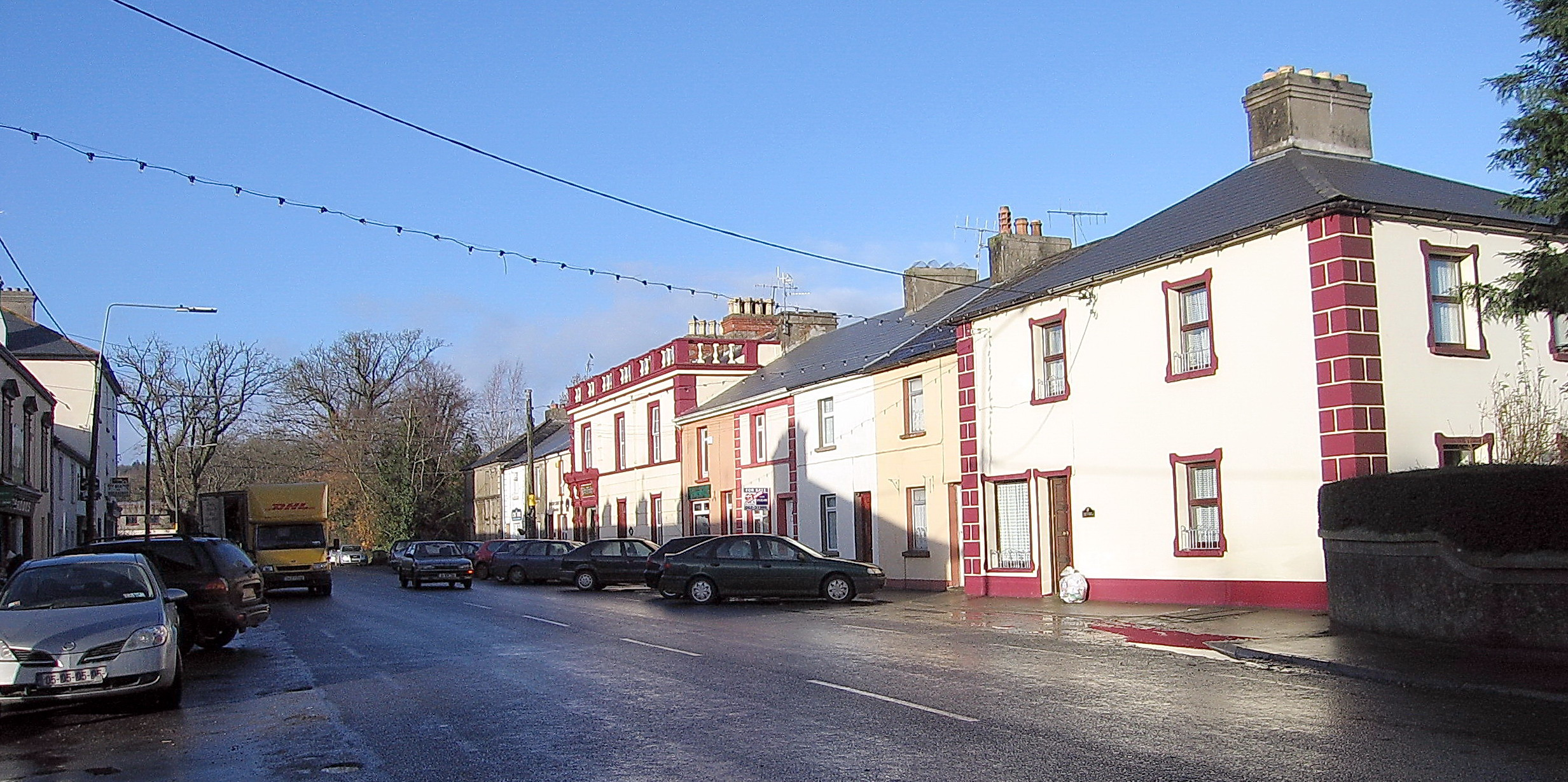 Main Street, Dundrum, County Tipperary, Ireland (It's the R505, not the N74)